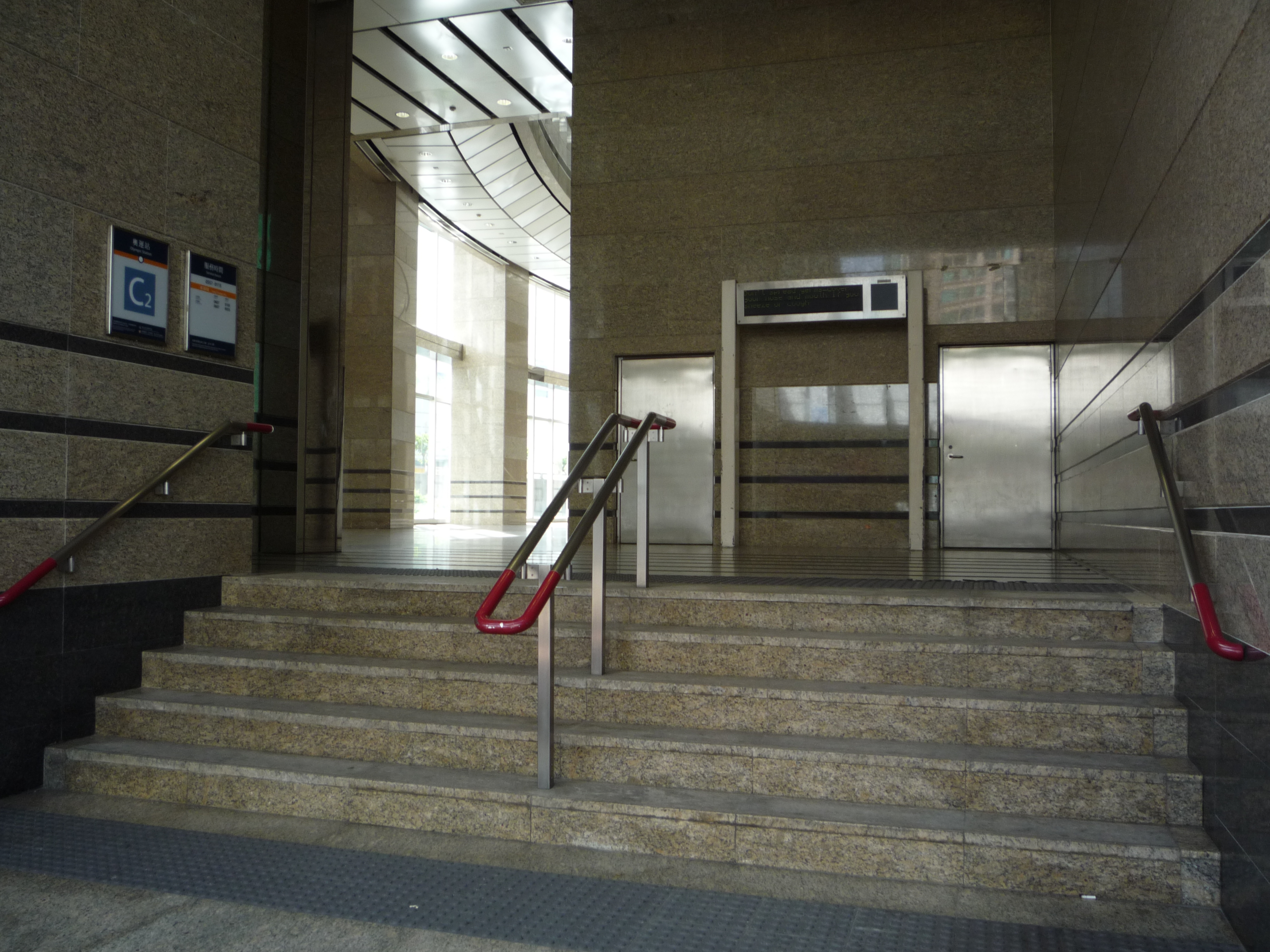 中文（香港）: 港鐵奧運站C2出口 中文（香港）: MTR Olympic Station Exit C2